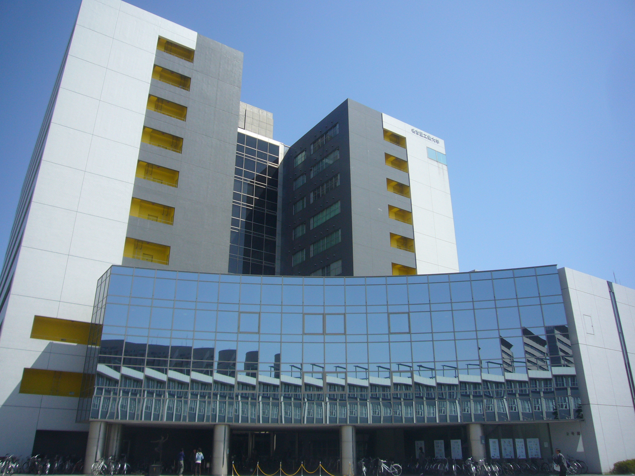 The photo was taken by myself, and is listed on my flickr photostream.